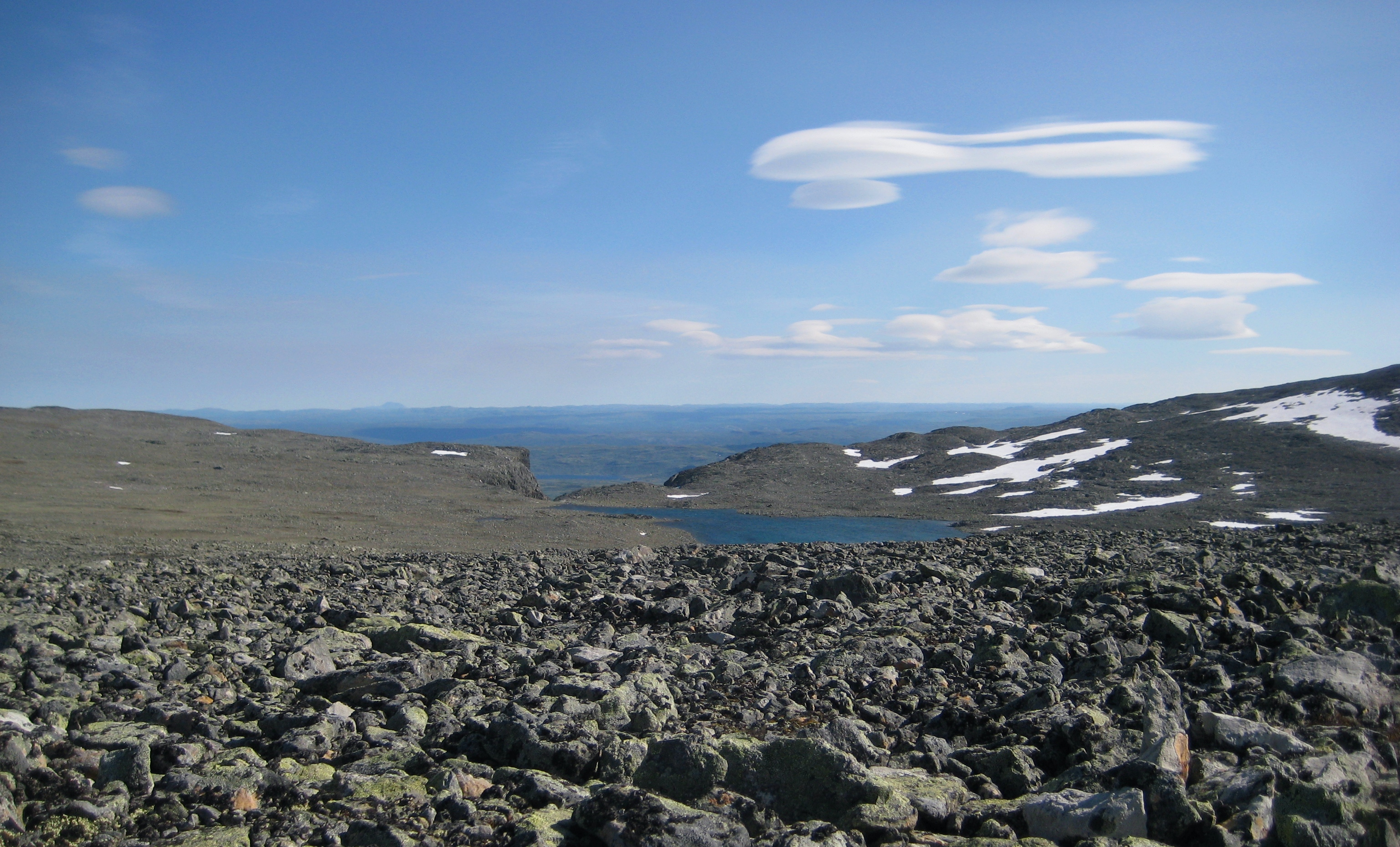 Eitretjørne (elevation 1634 m) and Eitrejuvet. In the far background: Gaustatoppen and Hardangervidda